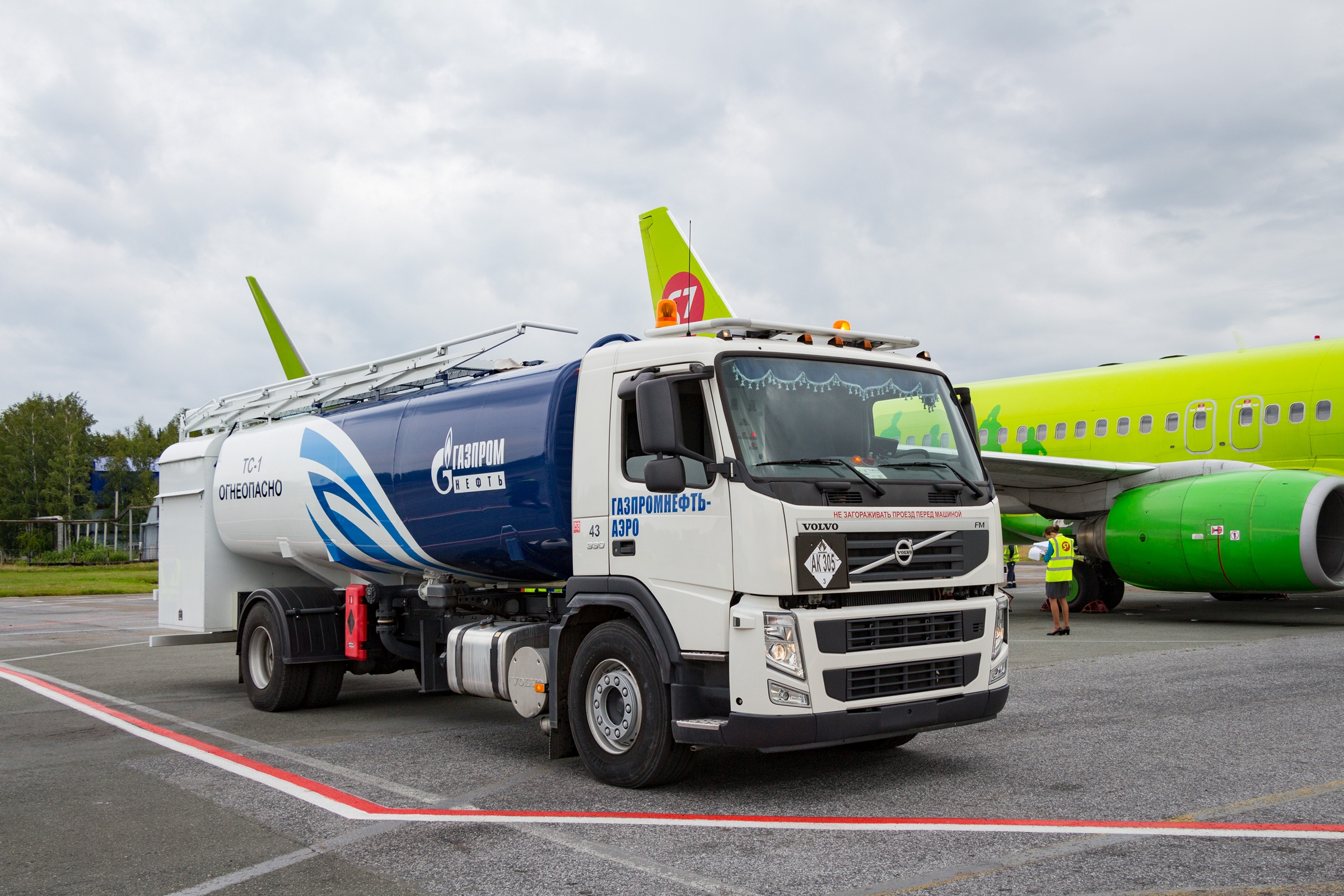 Volvo FM-based tank truck at Tomsk airport (TOF/UNTT), Russia